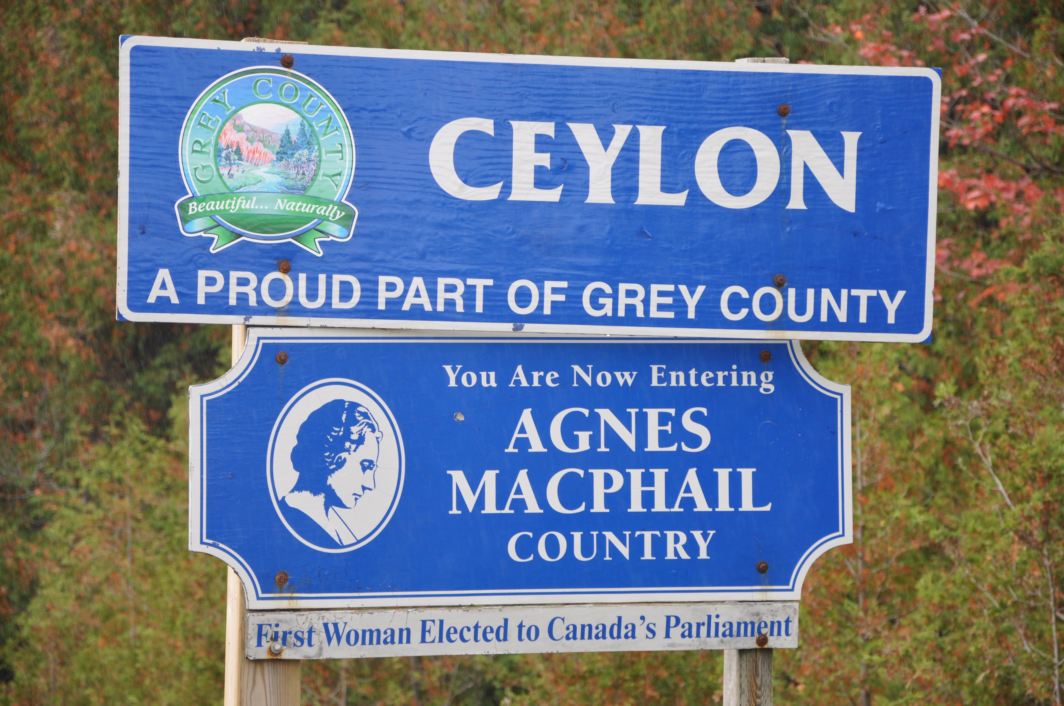 Sign at east end of unincorporated hamlet Ceylon (Grey Highlands, Ontario Canada) honouring Agnes Macphail. Agnes Macphail was the first woman elected as a Member of Parliament.